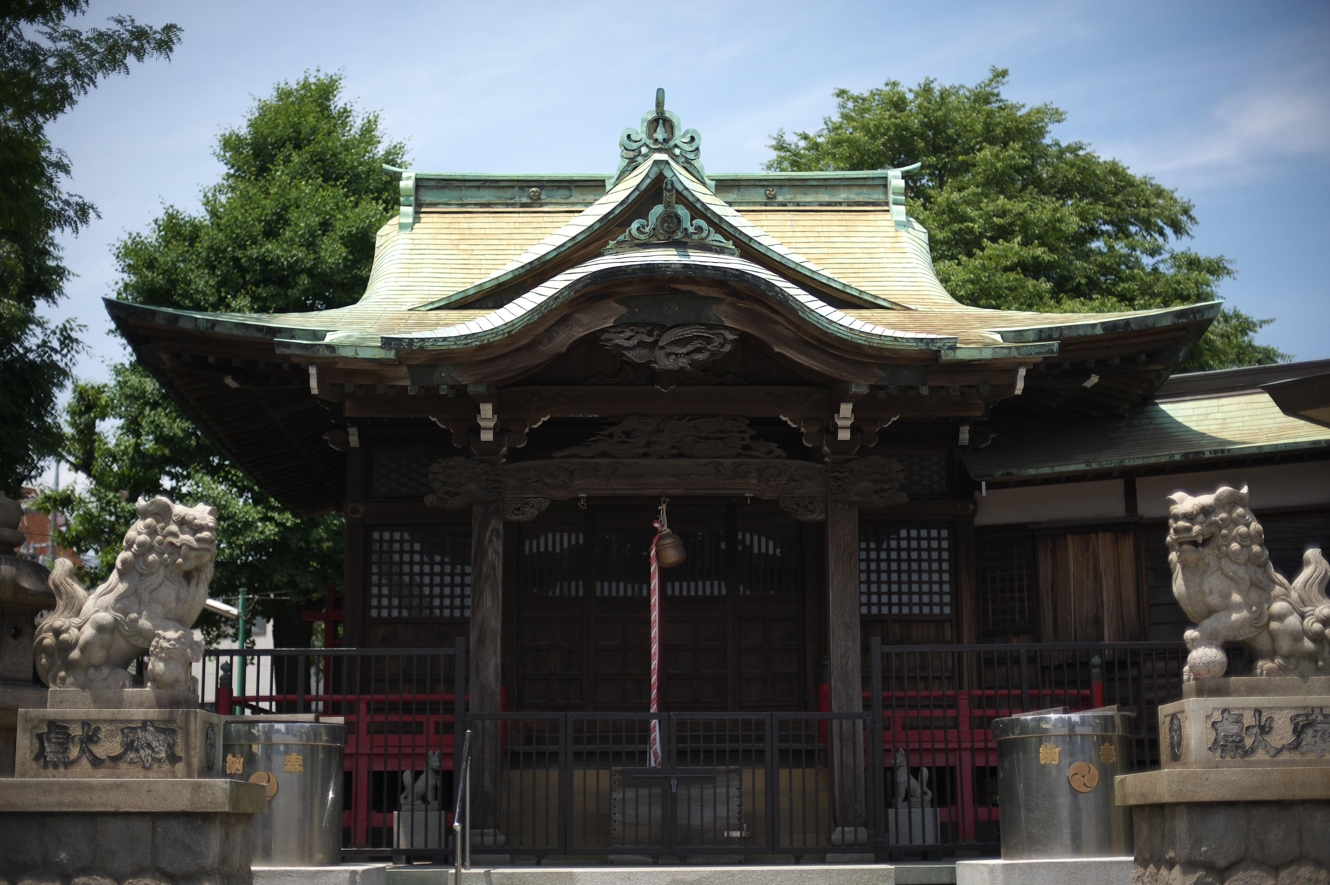 Koyasu hachiman shrine